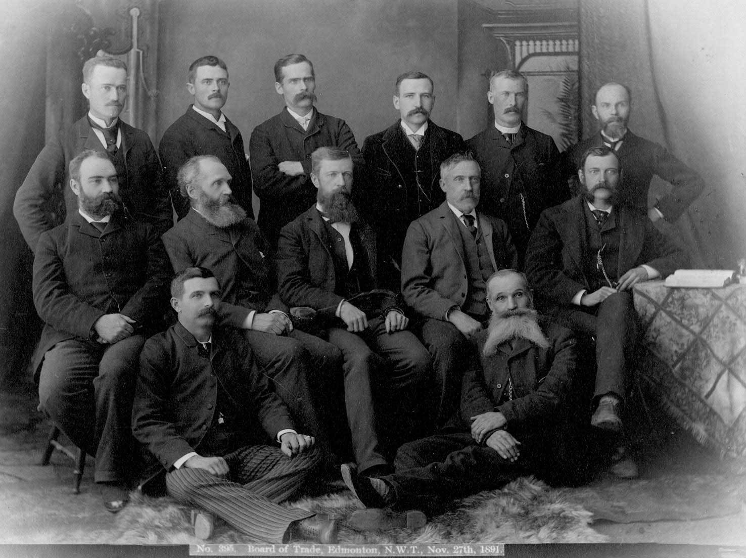 Edmonton Board of Trade, 1891 photo. Back row (l-r) Sidney S. Taylor, Philip E. Daly, Frank Oliver, Emmanuel Raymer, John A. McDougall, W. Johnstone Walker Middle row (l-r) Alex Taylor [treasurer], James McDonald, John Cameron [president], Edward F. Carey [vice president], Colin F. Strang [secretary] Front row (l-r) Joseph Henri Picard, A. D. Osborne